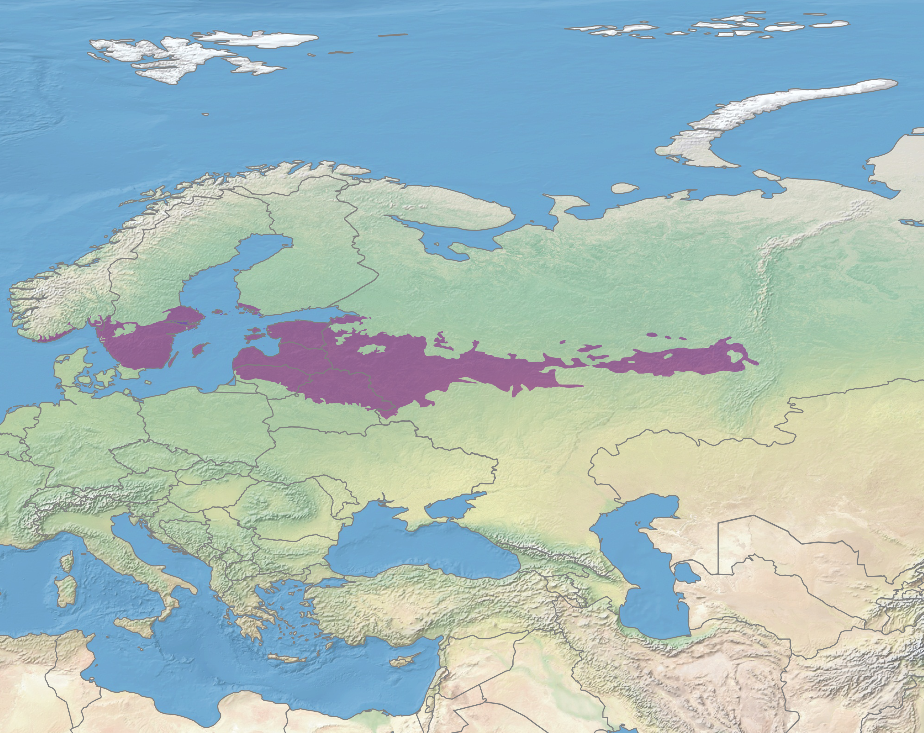 Ecoregion PA0436: Sarmatic mixed forests